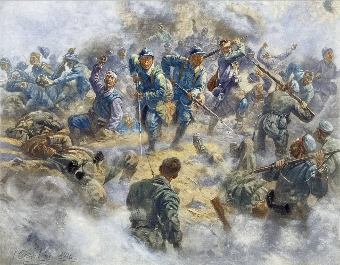 Henri-Georges Chartier, French infantry recapturing Fort Douaumont on the 24 October 1916, Paris, Army Museum.